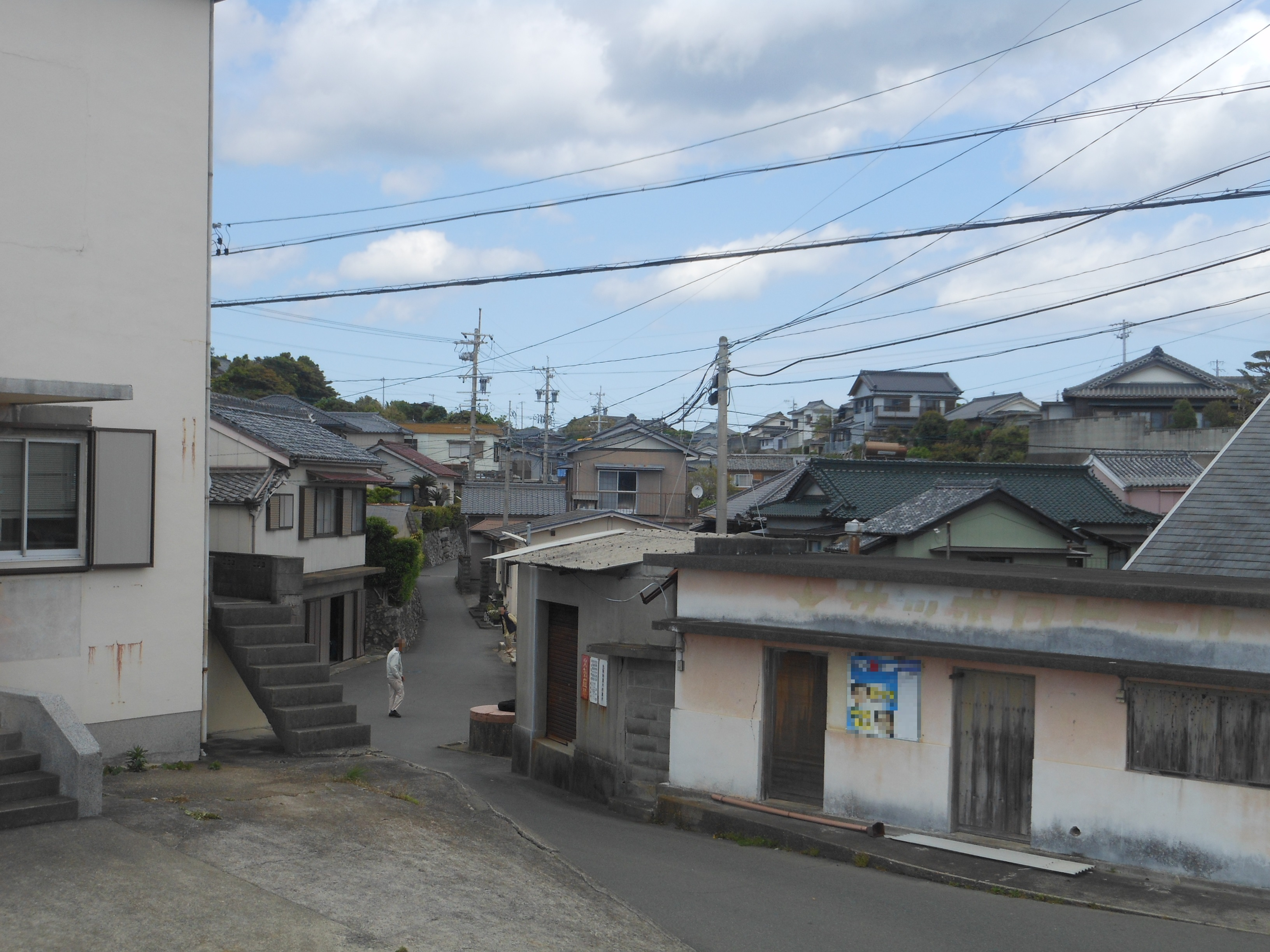 This is a landscape of Shimacho-Koshika, Shima city, Mie prefecture, Japan.